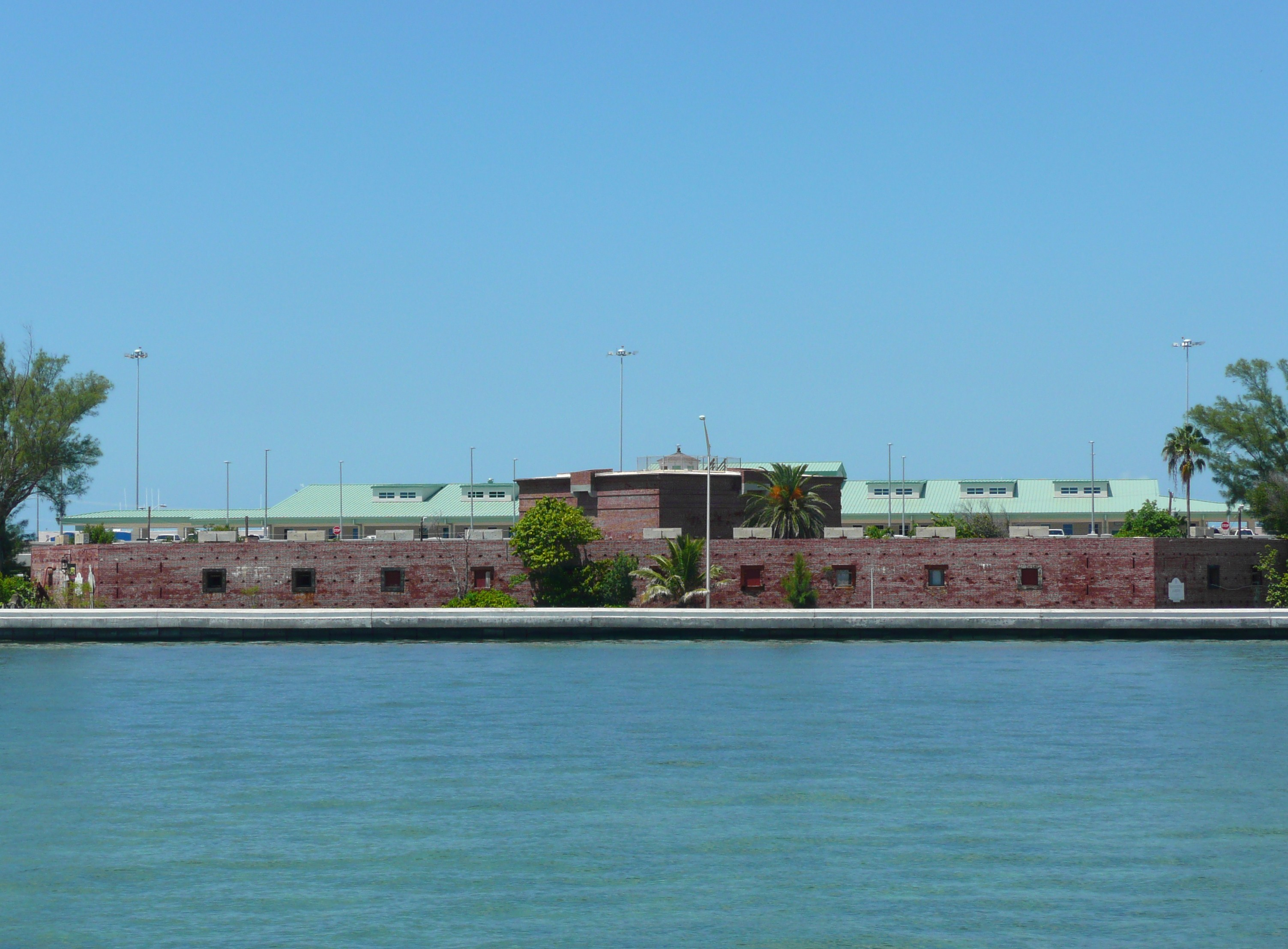 Digital photo taken by Marc Averette. East Martello Tower in Key West, Florida as seen from the Atlantic Ocean.